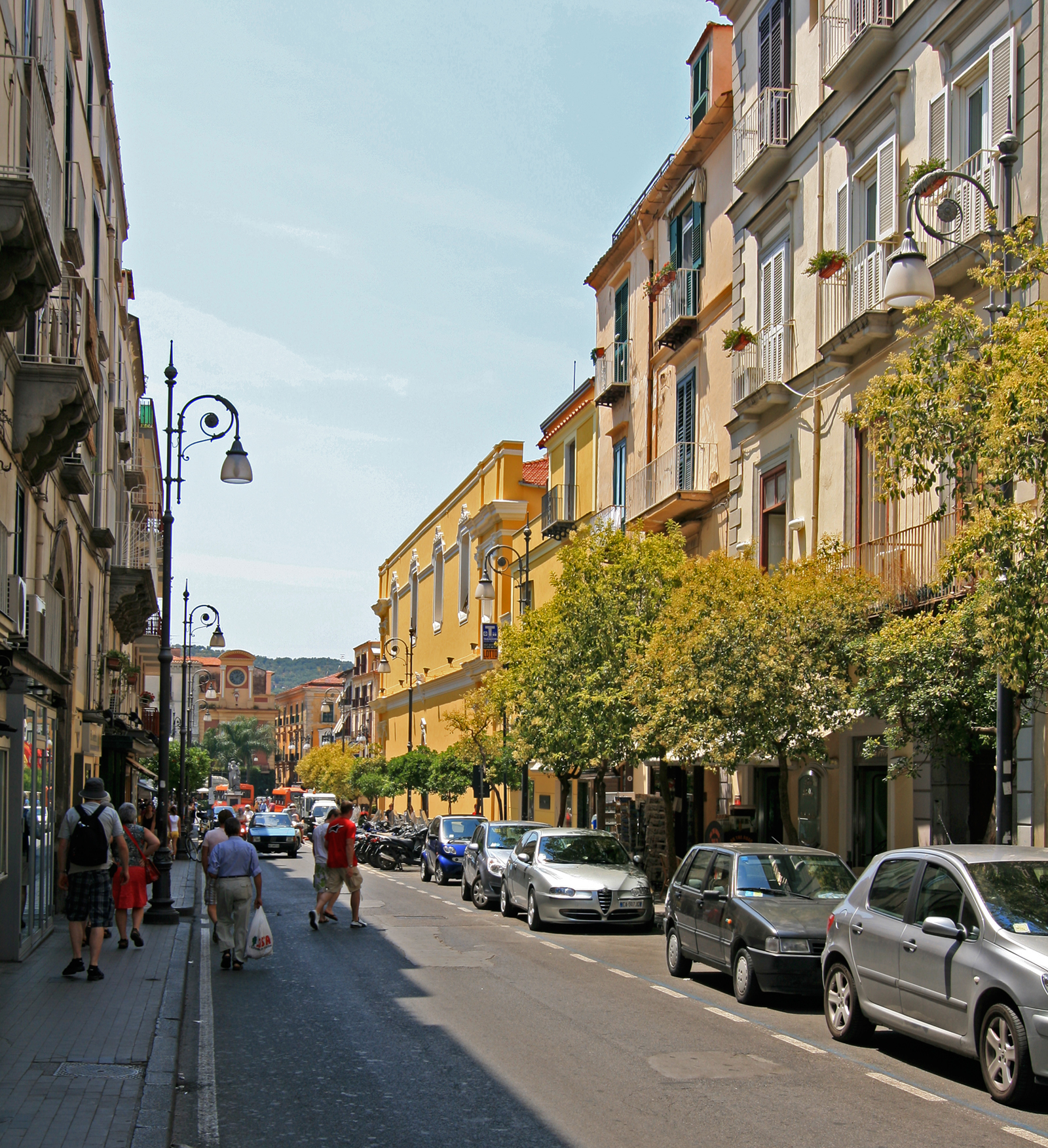 Corso Italia, Sorrento, Italy.